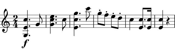 Joseph Haydn, Symphony No. 32, first movement, bar 1-6, first violin